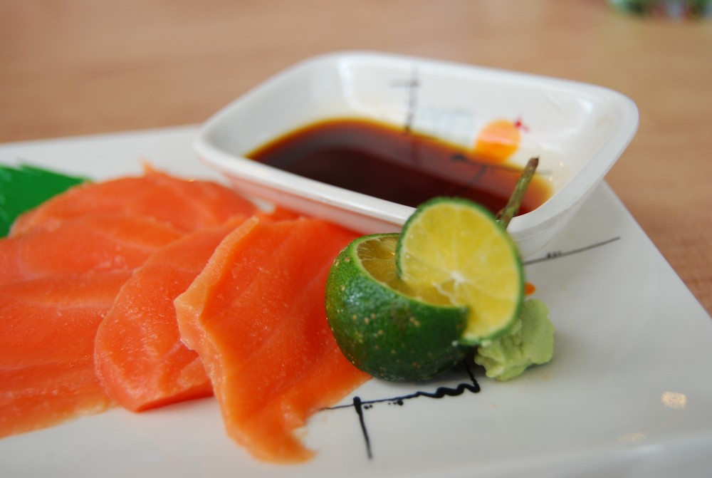 Salmon sashimi served with calamansi. The juice can be mixed with the soy sauce or applied directly to the sashimi to give it a sour flavor. Taken with a Nikon D40x.